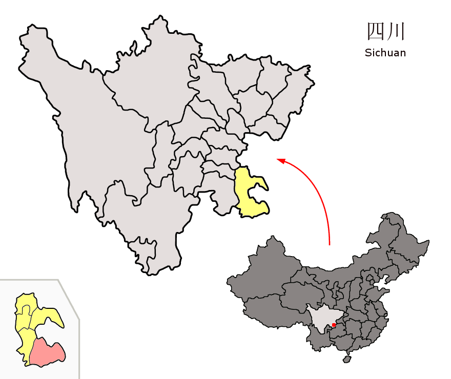 Location of Gulin County (pink) and Luzhou Prefecture (yellow) within Sichuan province of China Map drawn in october 2007 using various sources, mainly : Sichuan province administrative regions GIS data: 1:1M, County level, 1990 Sichuan Counties map from